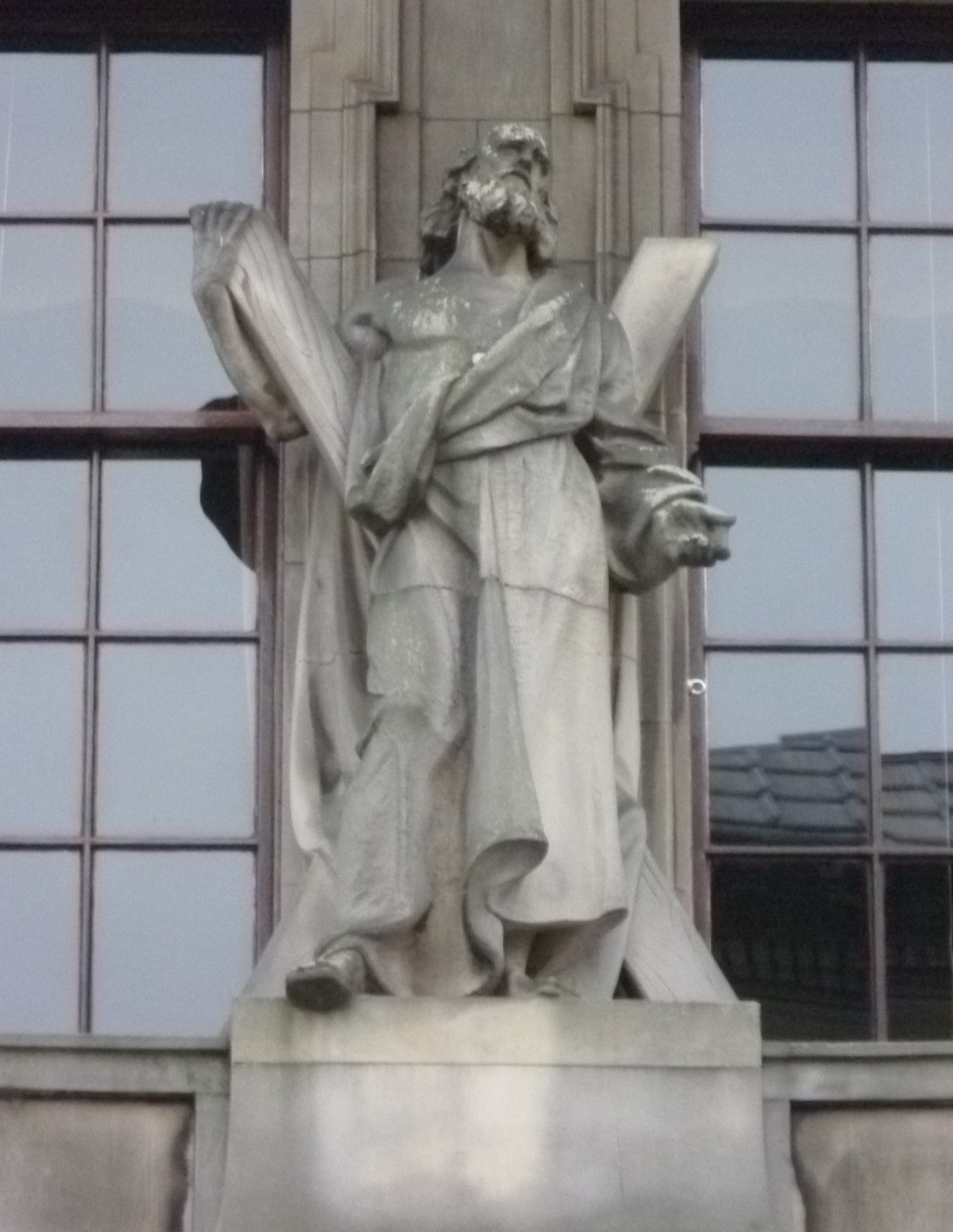 St. Andrew. Freemasons Hall, George Street Edinburgh